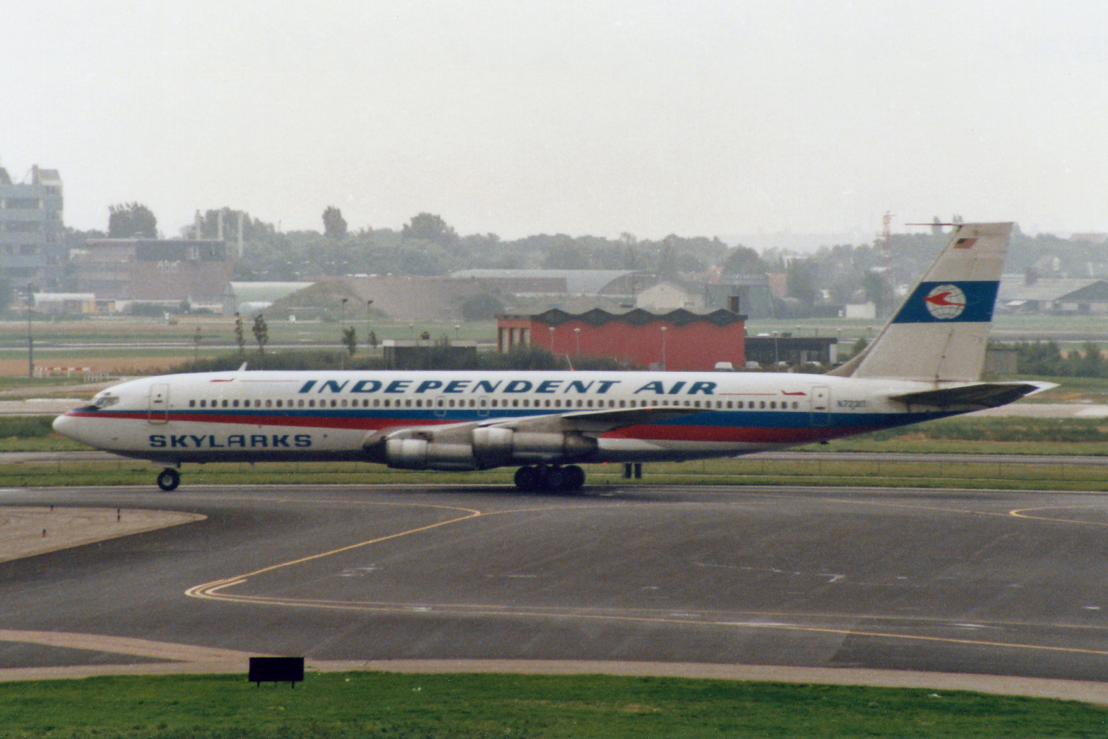 Amsterdam (Schiphol) (AMS / EHAM) 1.1985 crashed at Santa Maria,Azores 8.2.89